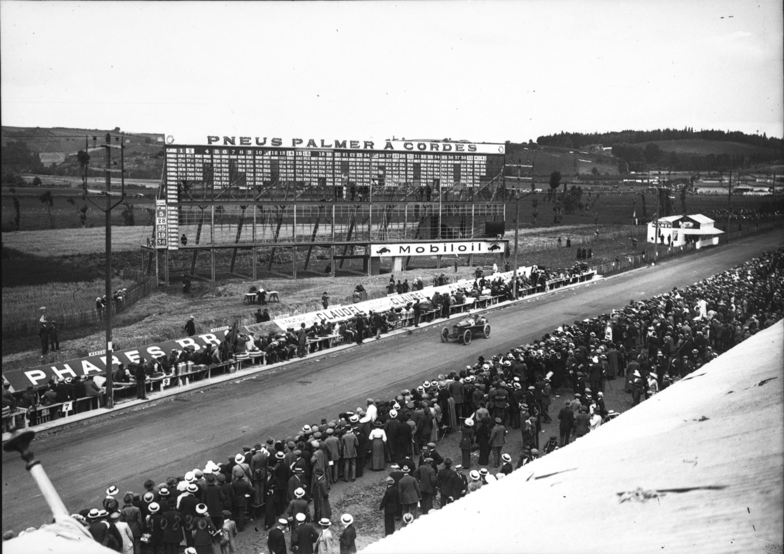 Jules Goux at the 1914 French Grand Prix